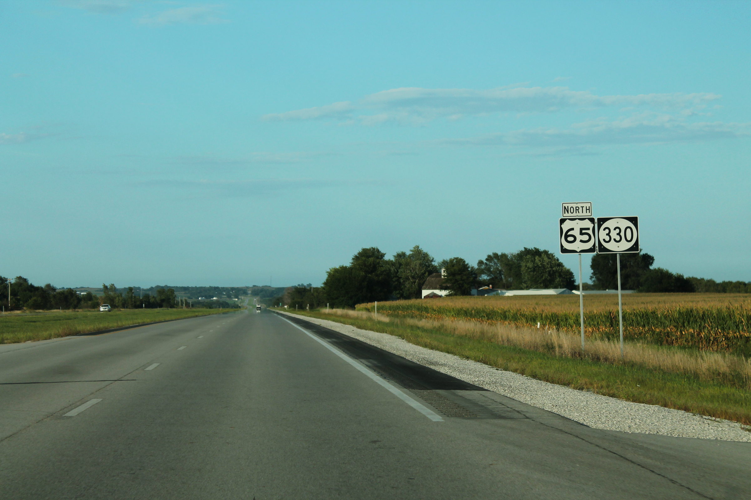 IA330eUS65nSignsRoad-Bondurant